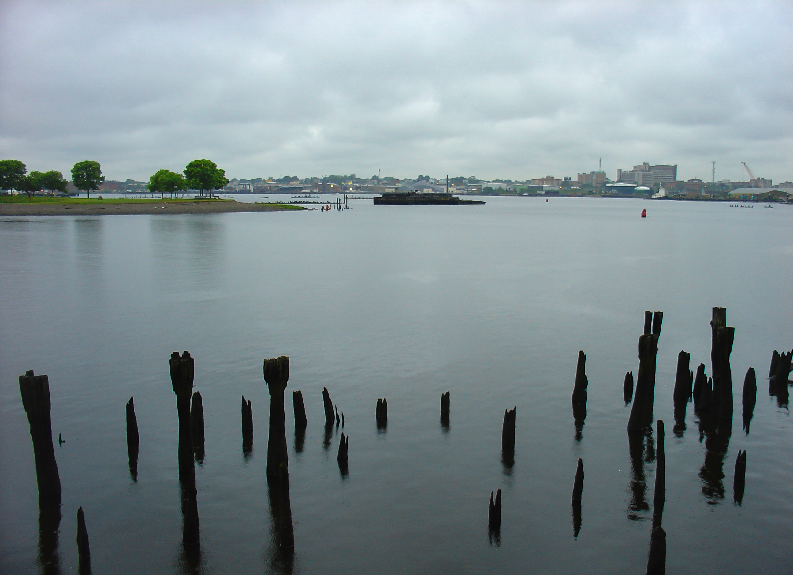 Looking across Green Jacket Shoal from India Point Park (Providence, Rhode Island) in June 2006. Bold Point Park visible across the water. Old docks and other debris in the water. A cloudy, rainy day.